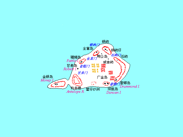 Battle of the Xisha Islands